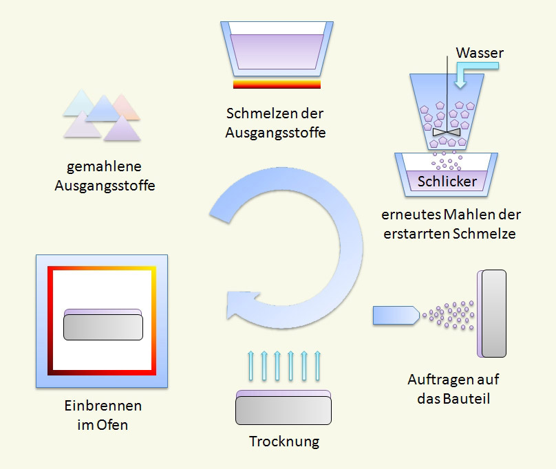 Enamel is an inorganic composition mostly out of glass-forming silicates and oxides, corresponding aggregates (soda, boron, etc.) and appropriate metal oxides for the coloring.